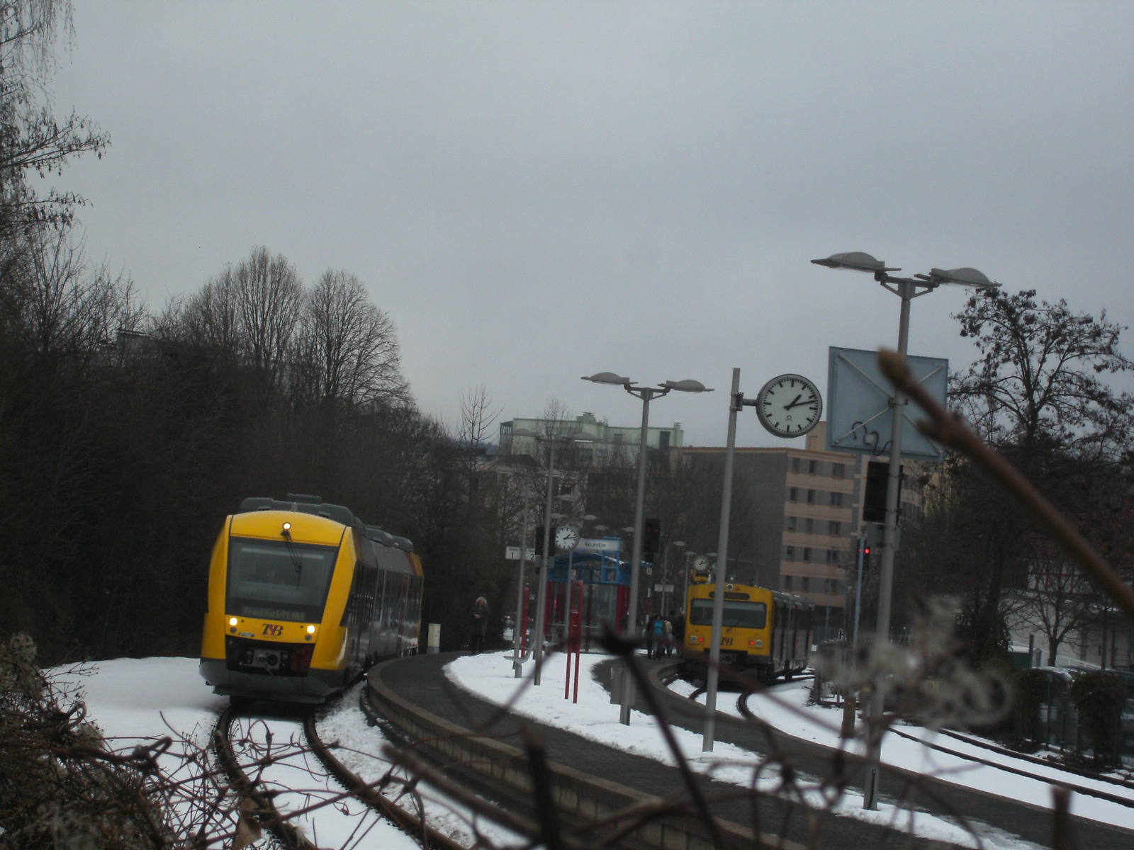 Taunusbahn in Hesse at the station Kelkheim